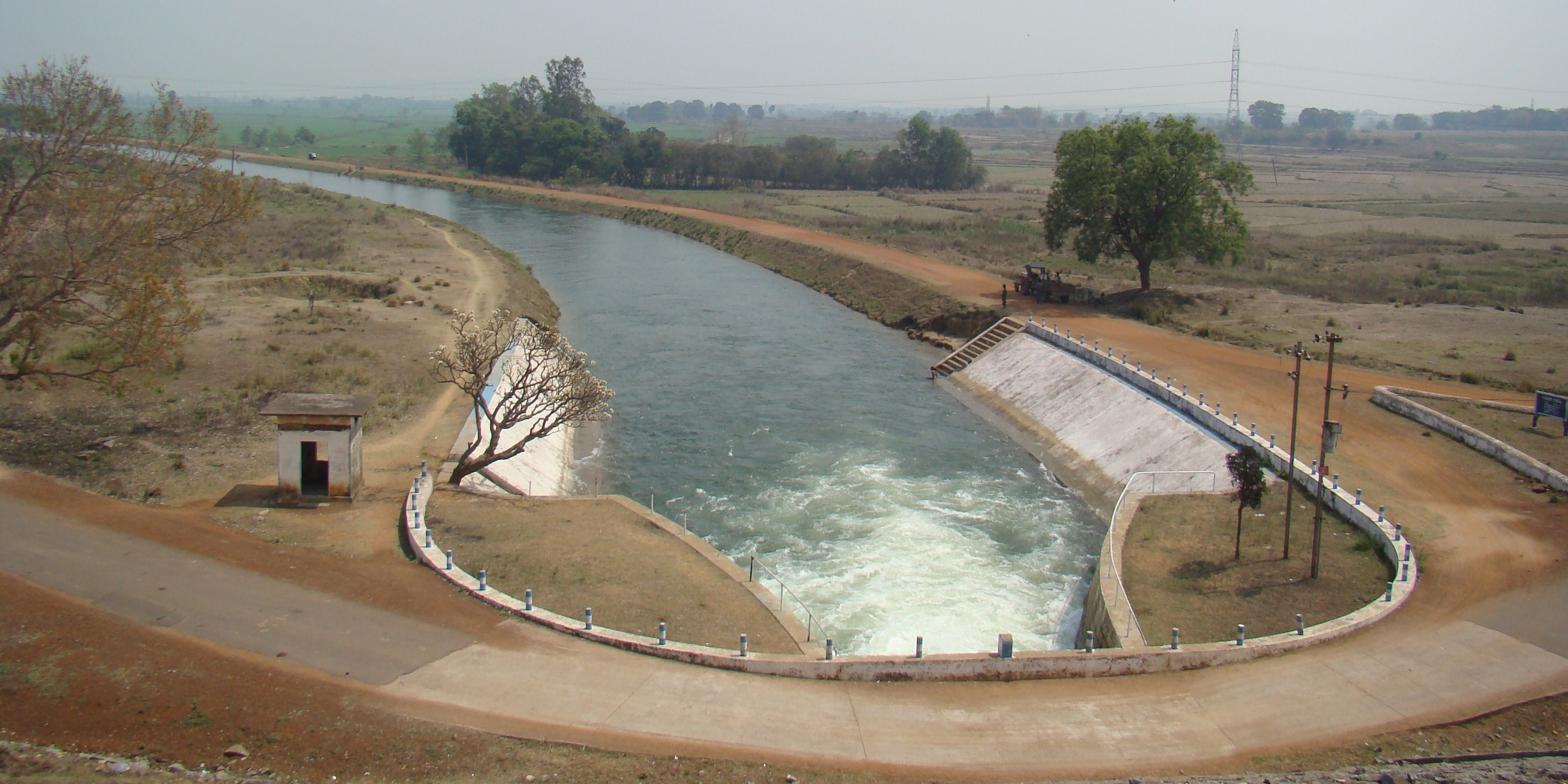 Sasan Canal originating point at Hirakud Dam.